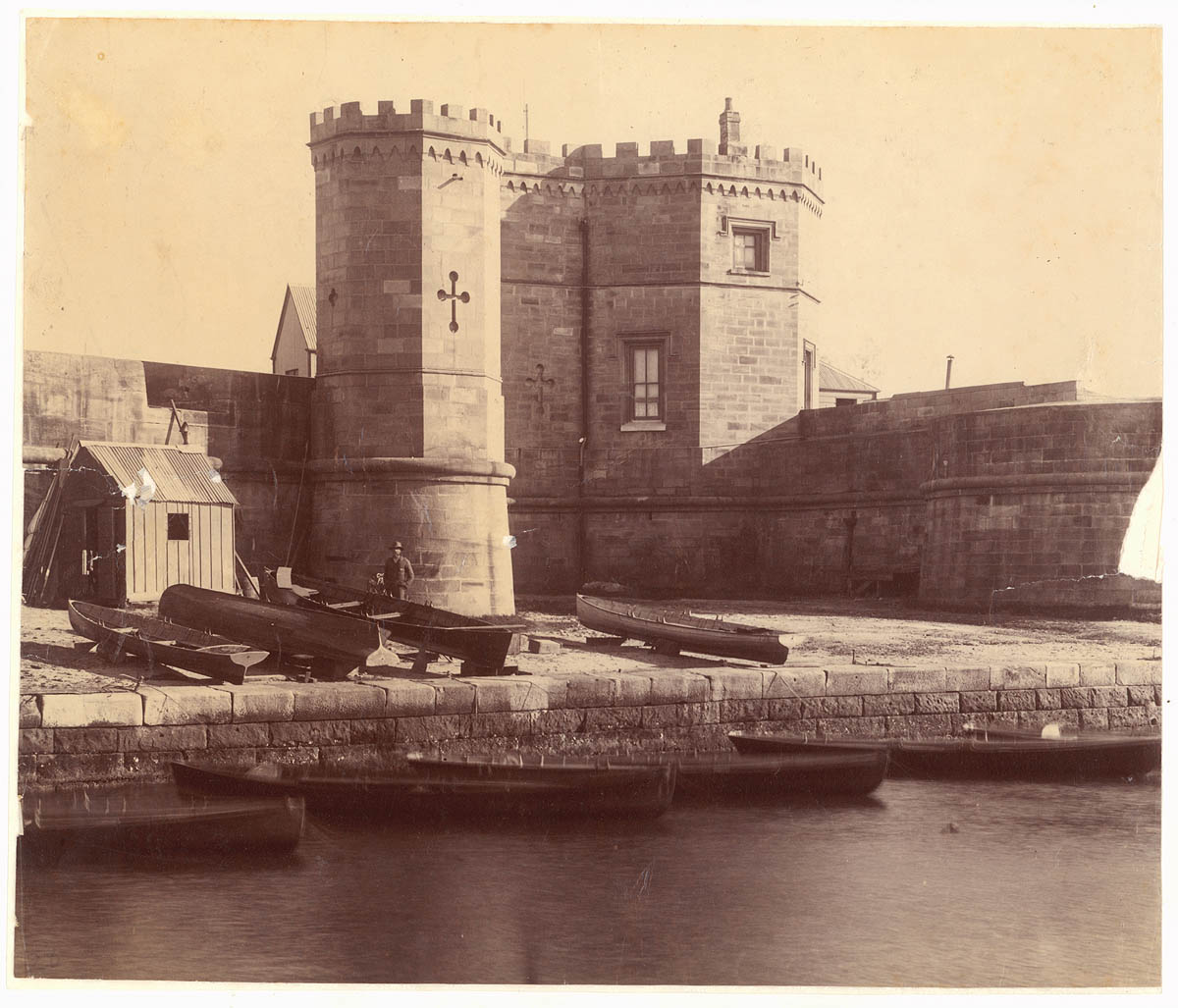 Format: Albumen photoprint Notes: Fort Macquarie was built on the end of Bennelong Point, where the Sydney Opera House now stands. Completed by convict labour in 1821 using stone from the Domain, the fort had 15 guns and housed a small garrison. The powder magazine beneath the tower was capable of storing 350 barrels of gunpowder. The fort was demolished in 1901 to make way for the tramway sheds that occupied the site until the construction of the Utzon masterpiece. Find more photographs of early Sydney on Discover Collections - Sydney Exposed: From the collections of the Mitchell Library, State Library of New South Wales Information about photographic collections of the State Library of New South Wales: .au/search/SimpleSearch.aspx Persistent url: .au/item/itemDetailPaged.aspx?itemID=403205